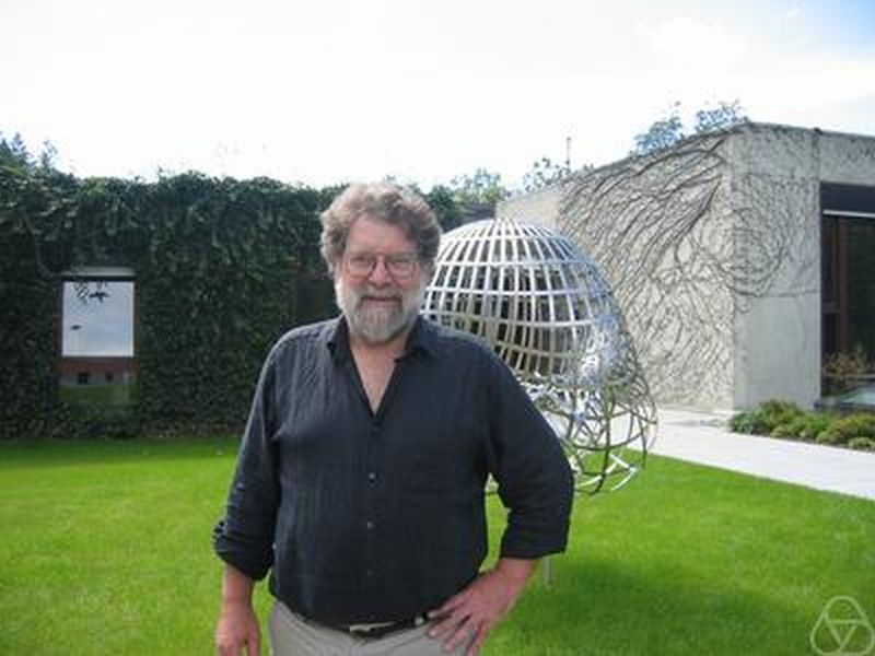 Richard Melrose, Oberwolfach 2007